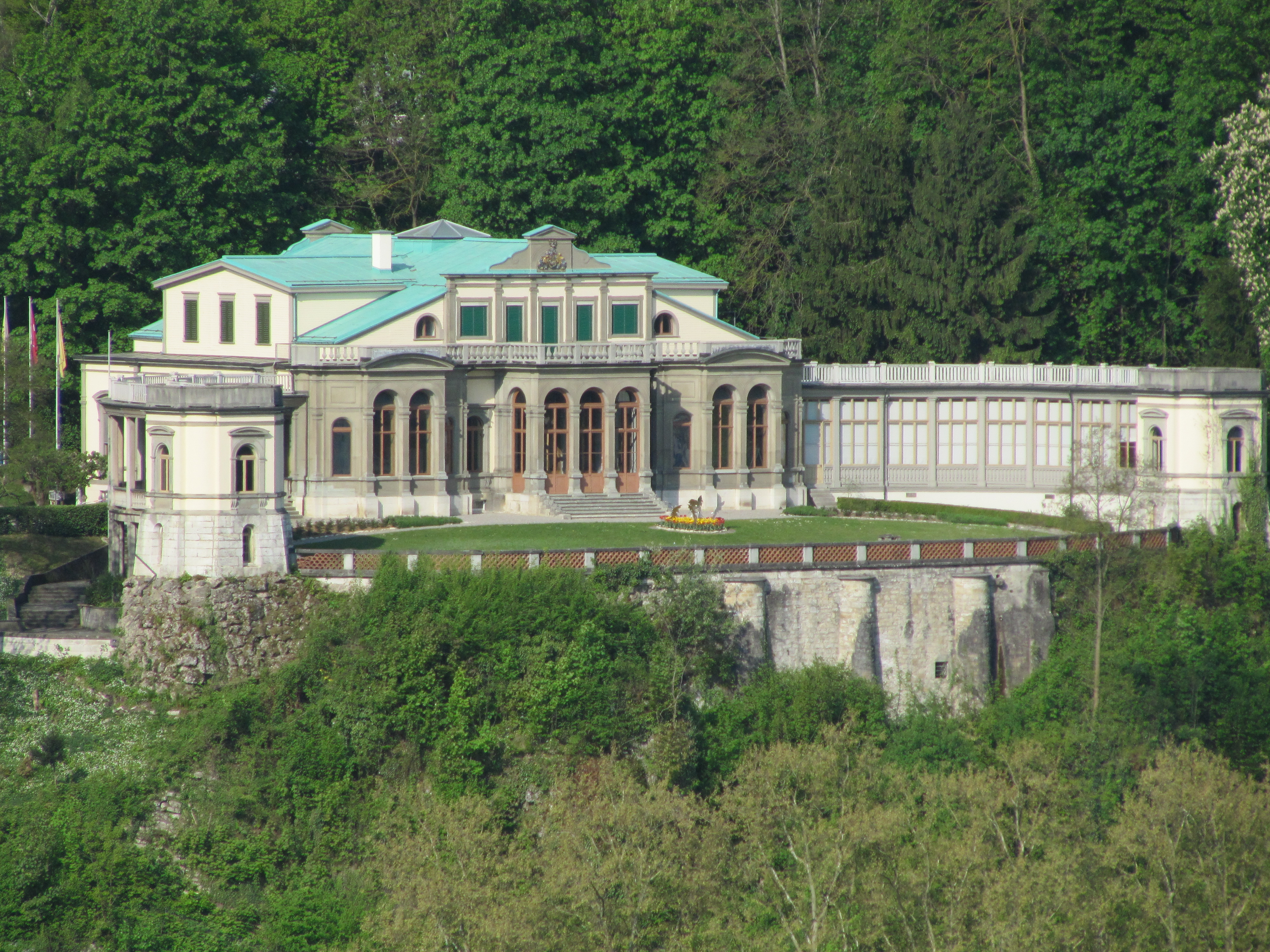 Villa Charlottenfels, Canton Schaffhausen